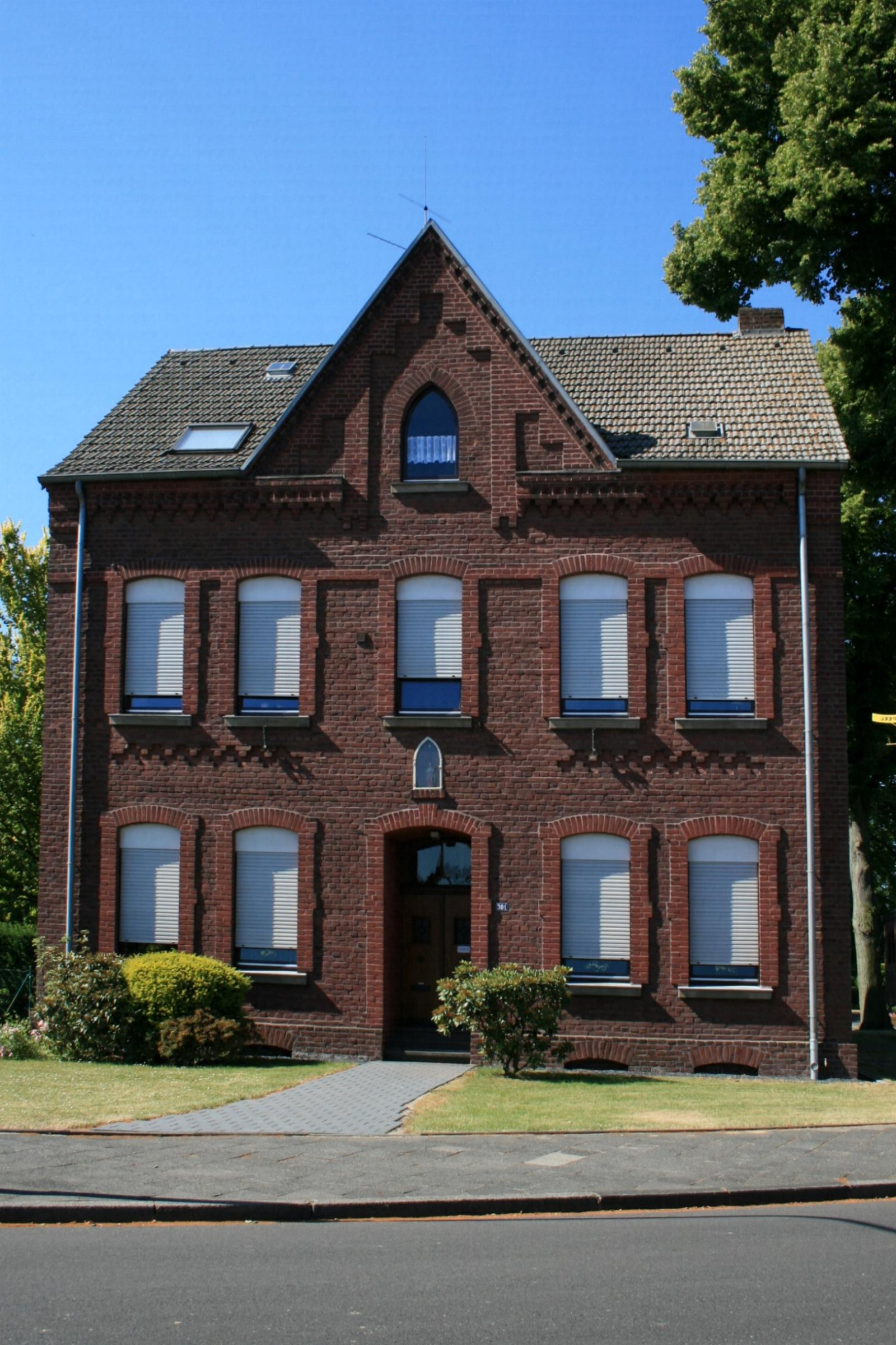 Cultural heritage monument No. R 012 in Mönchengladbach